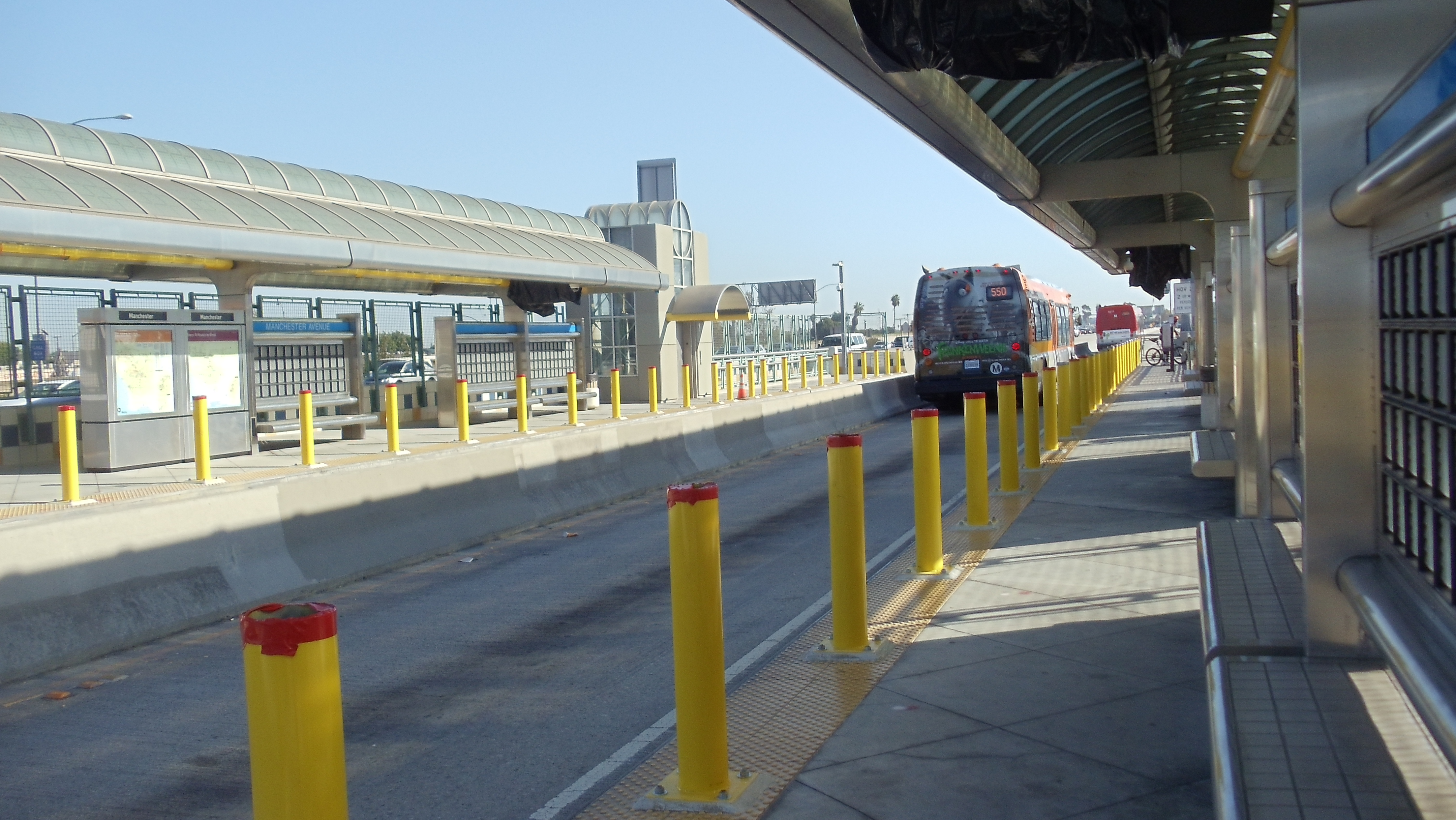 Metro Express Lines: 460 & 550 departing Manchester Silver Line Station. Bollards, CC Security cameras and digital message signs are improvements currently being made to the station.